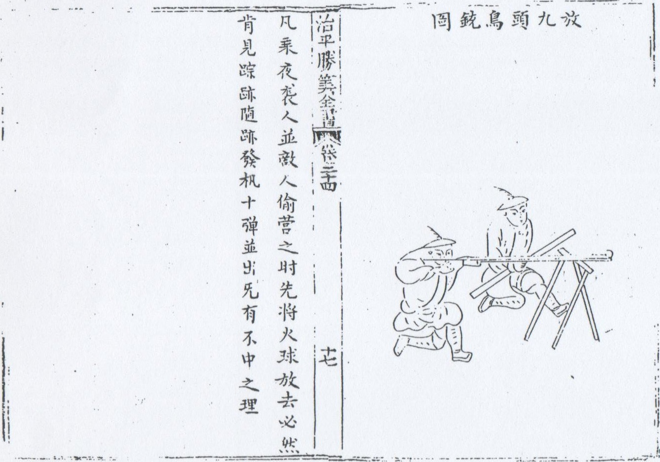 Firing "Nine-head bird" Gun.